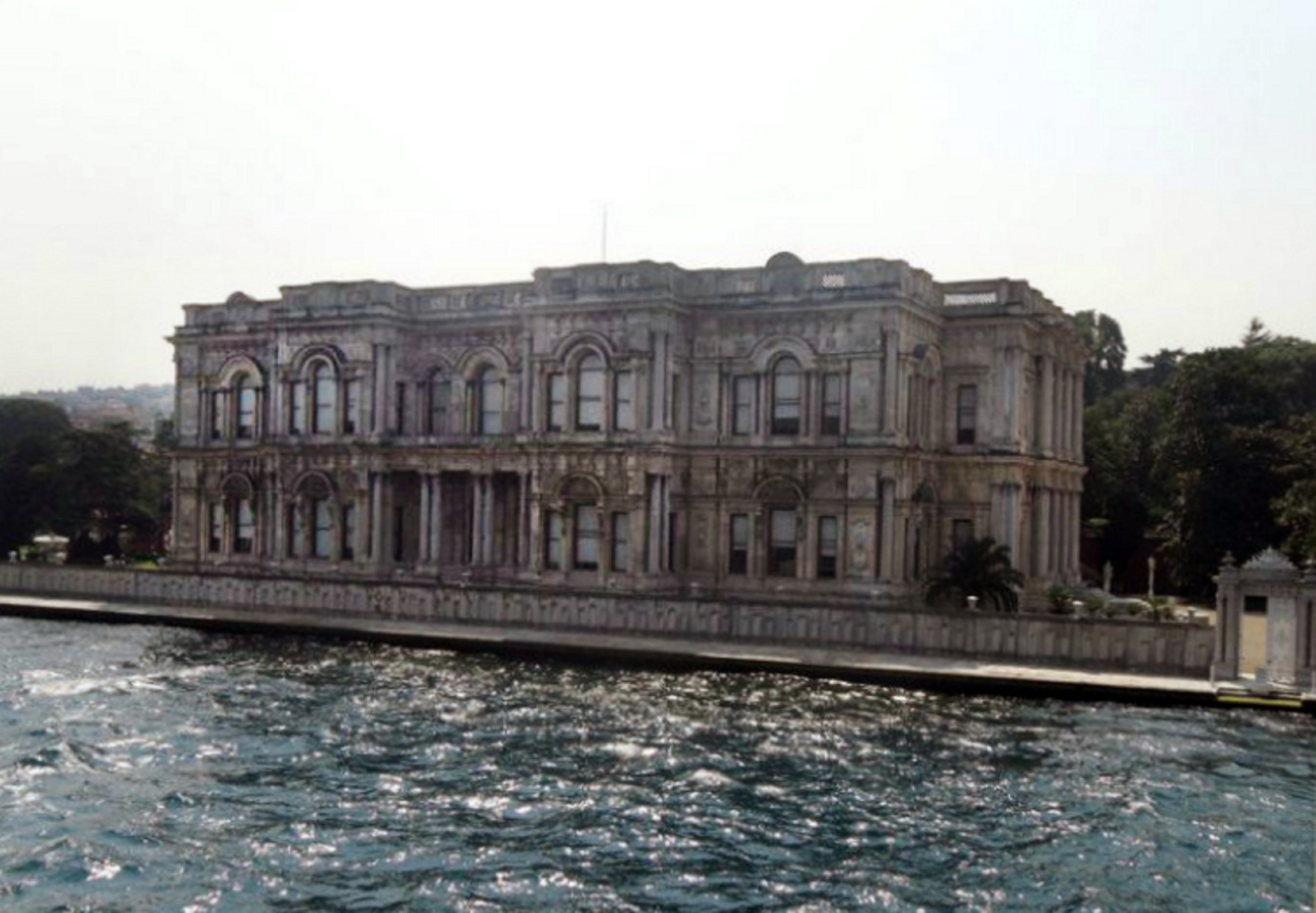 Küçüksu Palace, One of the ottoman palaces in Istanbul. This tiny palace was used by Ottoman sultans for short stays during country excursions and hunting.